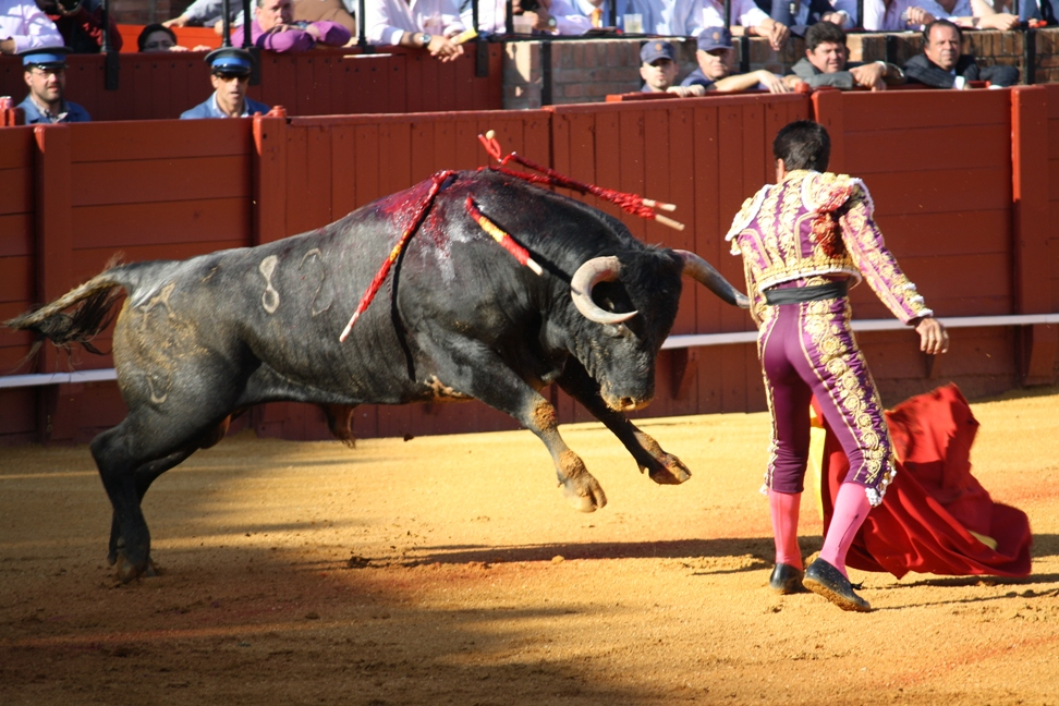 A Miura bull being killed by the matador El Fundi, Feria de Abril, Seville, Spain, 2009.